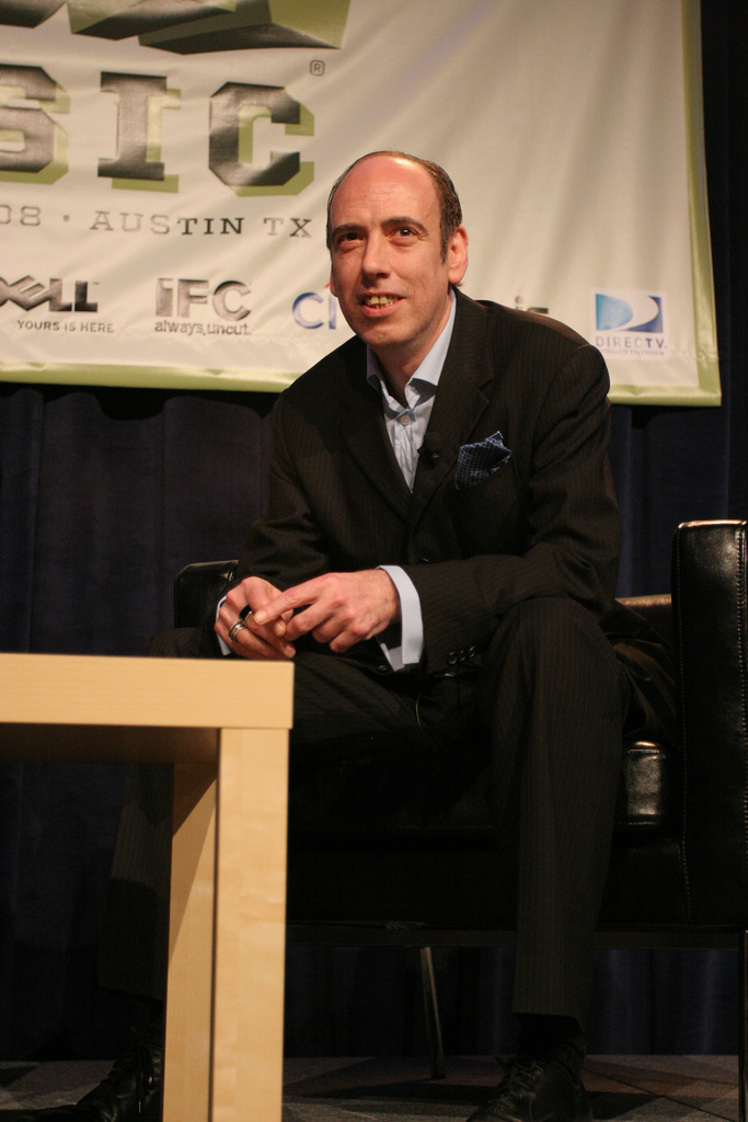 Mick Jones at SXSW08